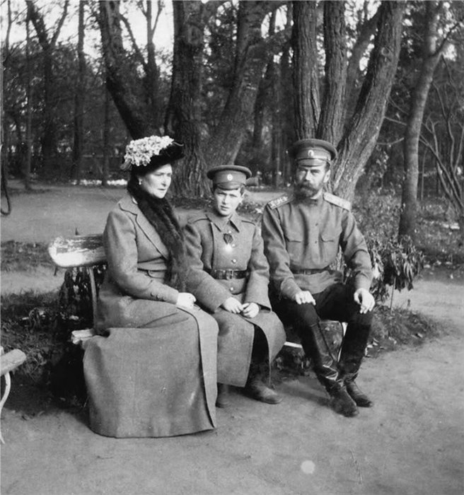 Empress Alexandra Feodorovna, Tsarevich Alexei Nikolayevich and Emperor Nicholas II at Tsarskoye Selo